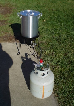 Shown here is a Turkey fryer. The fryer is hooked up to a propane tank which provides the fuel for the tank. About 3 gallons of peanut oil or soybean oil is used to deep fry a turkey.